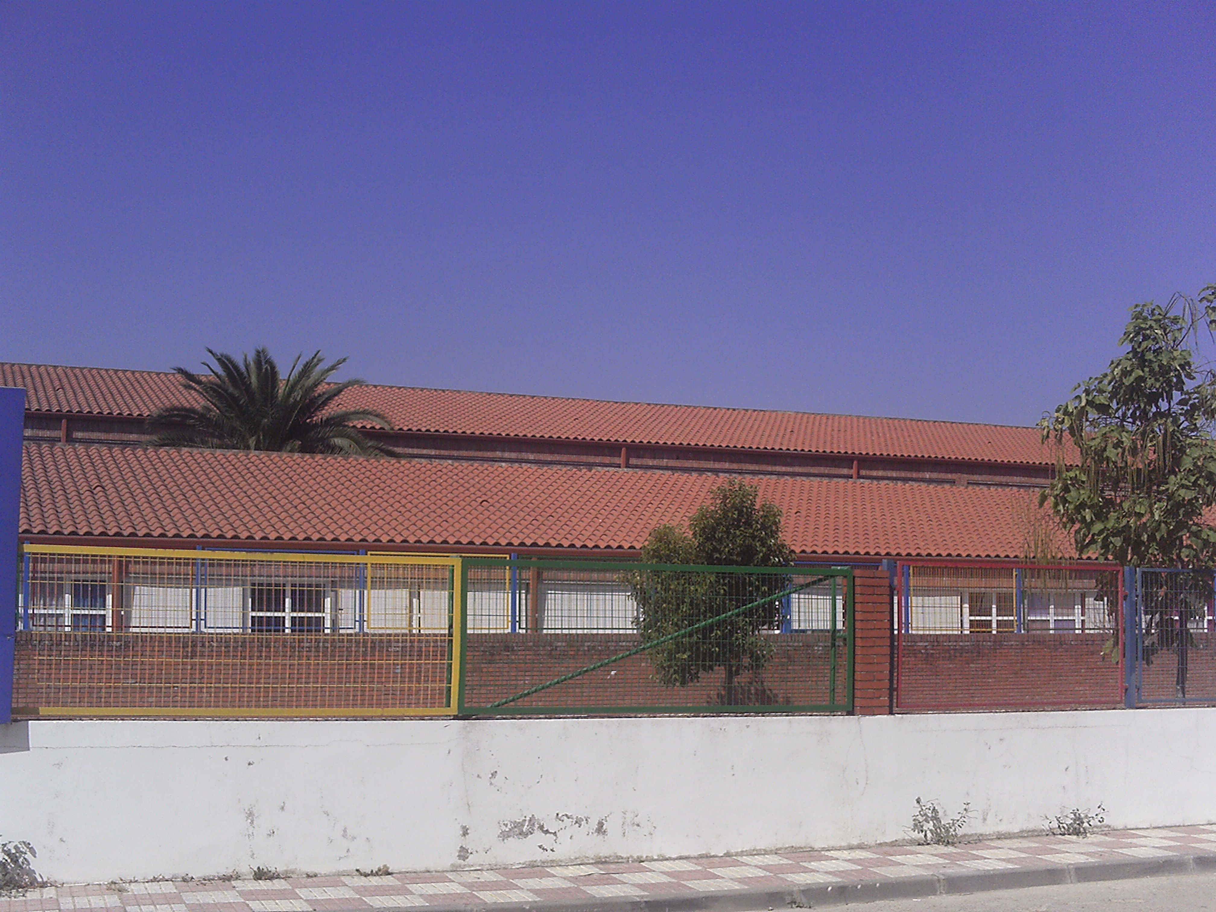 Fray Juan de Herrera College